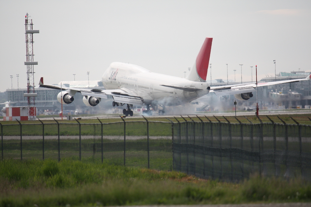 A Japan Airlines Boeing 747-446, tail number JA8079, landing at Vancouver International Airport